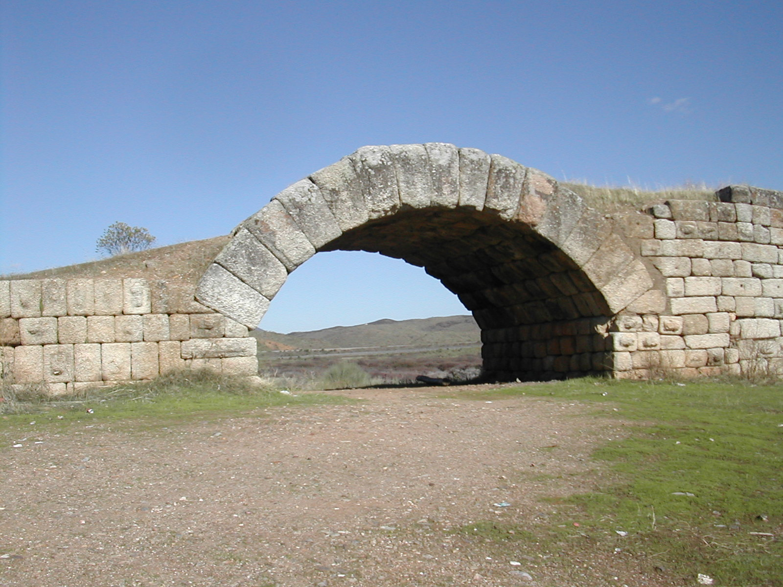 The remains of the Roman Puente de Alconétar (Alconétar Bridge), Cáceres Province, Spain. The ancient segmental arch bridge originally crossed the Tajo river near the village of Garrovillas. In 1972, during the construction of the Alcántara reservoir, the structure was moved 6 km upstream to its current location.